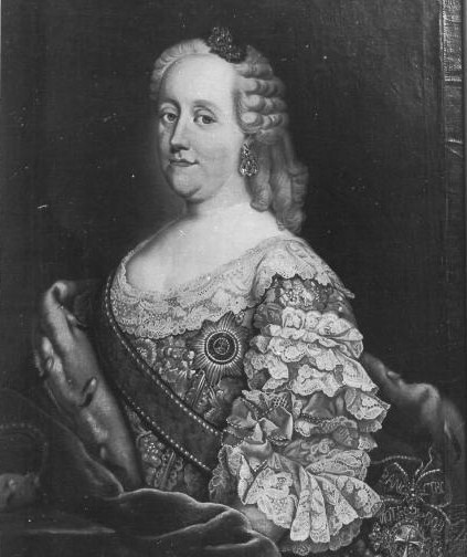 Anne von Schleswig-Holstein-Gottorf